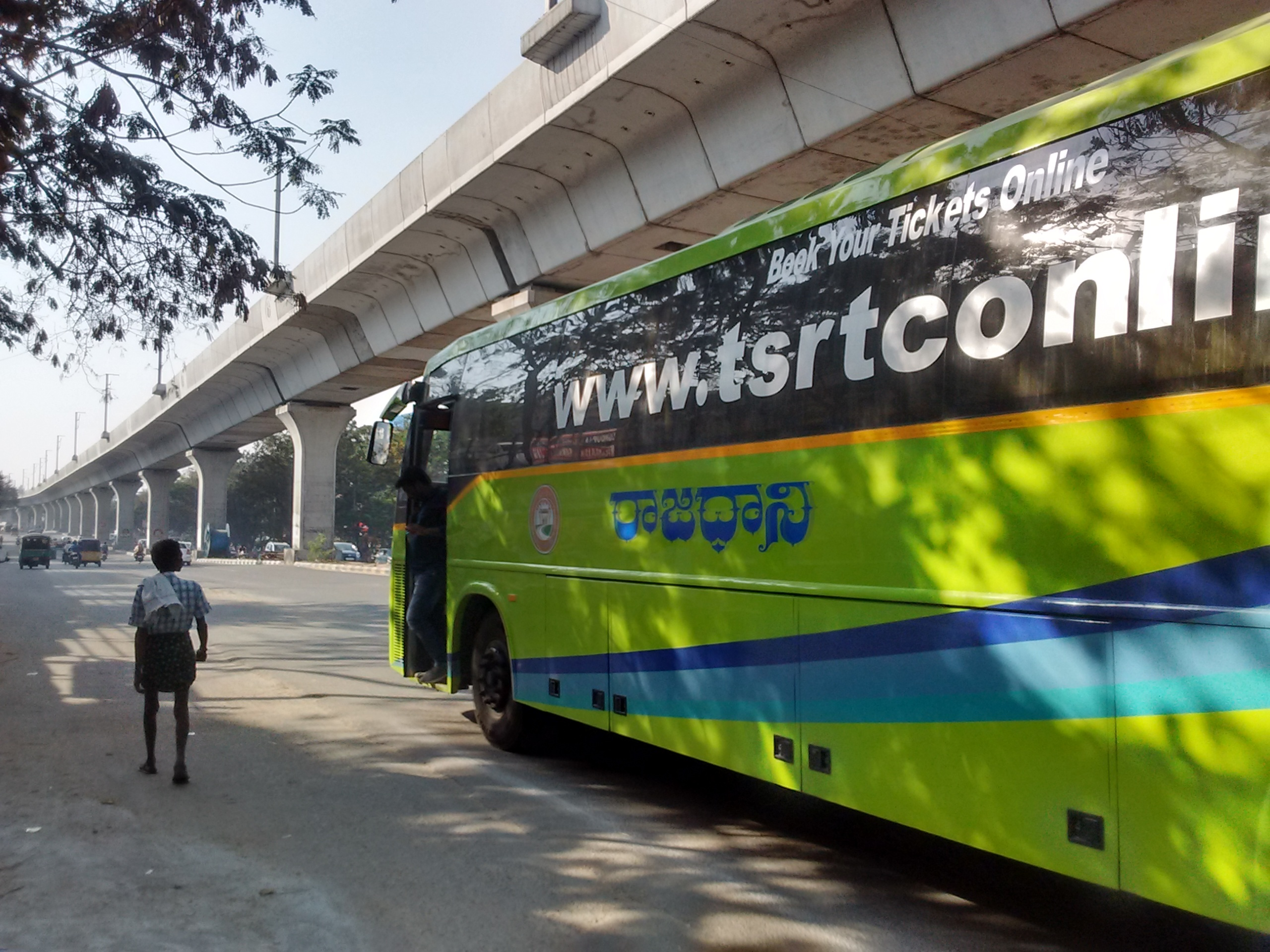 TSRTC's Rajadhani Bus heading towards MGBS